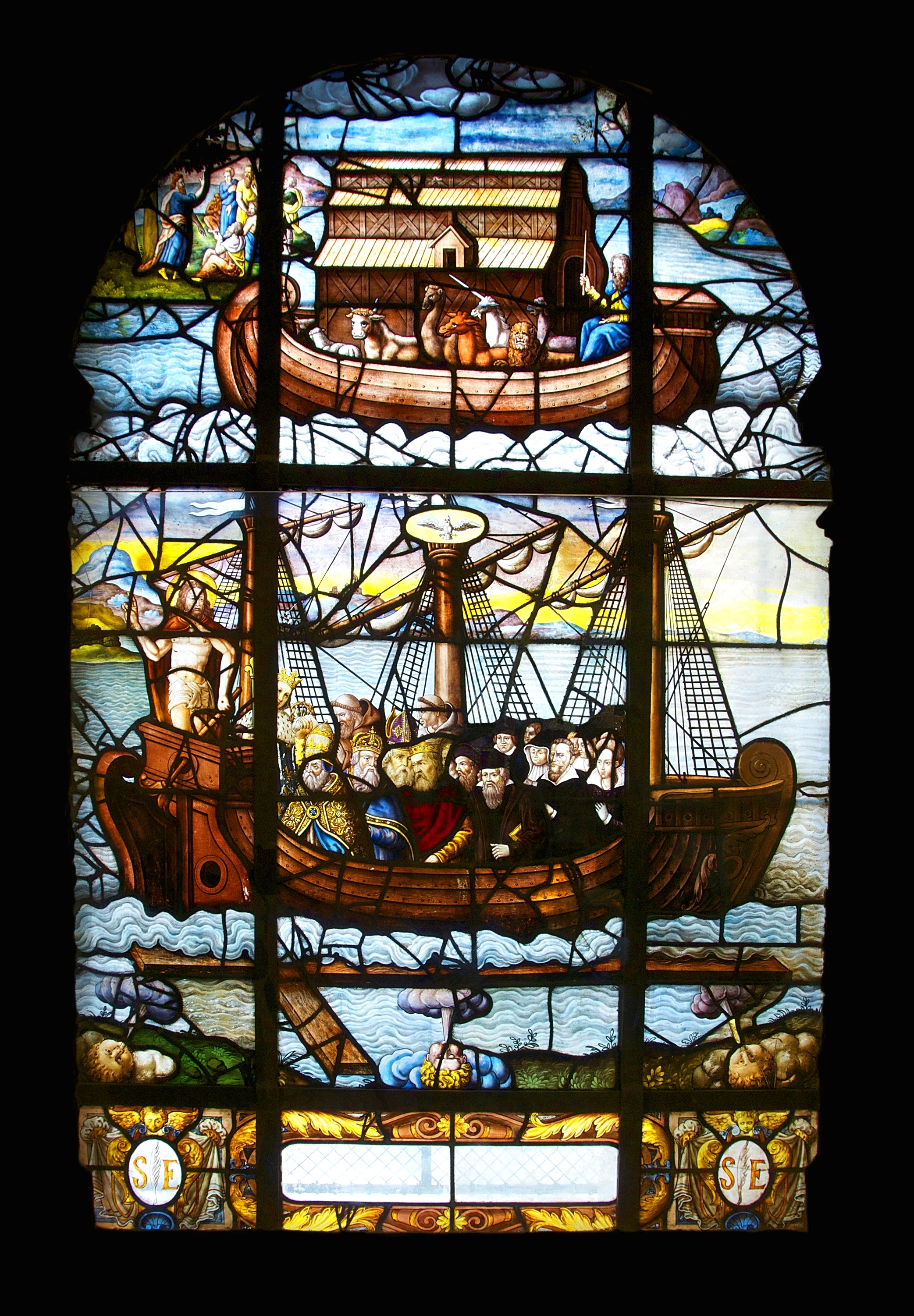 Noah's ark, The Church as a nave. Stained glass window. Church Saint-Etienne-du-Mont. Paris.